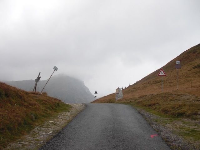 Colle d'Esischie: Pass summit